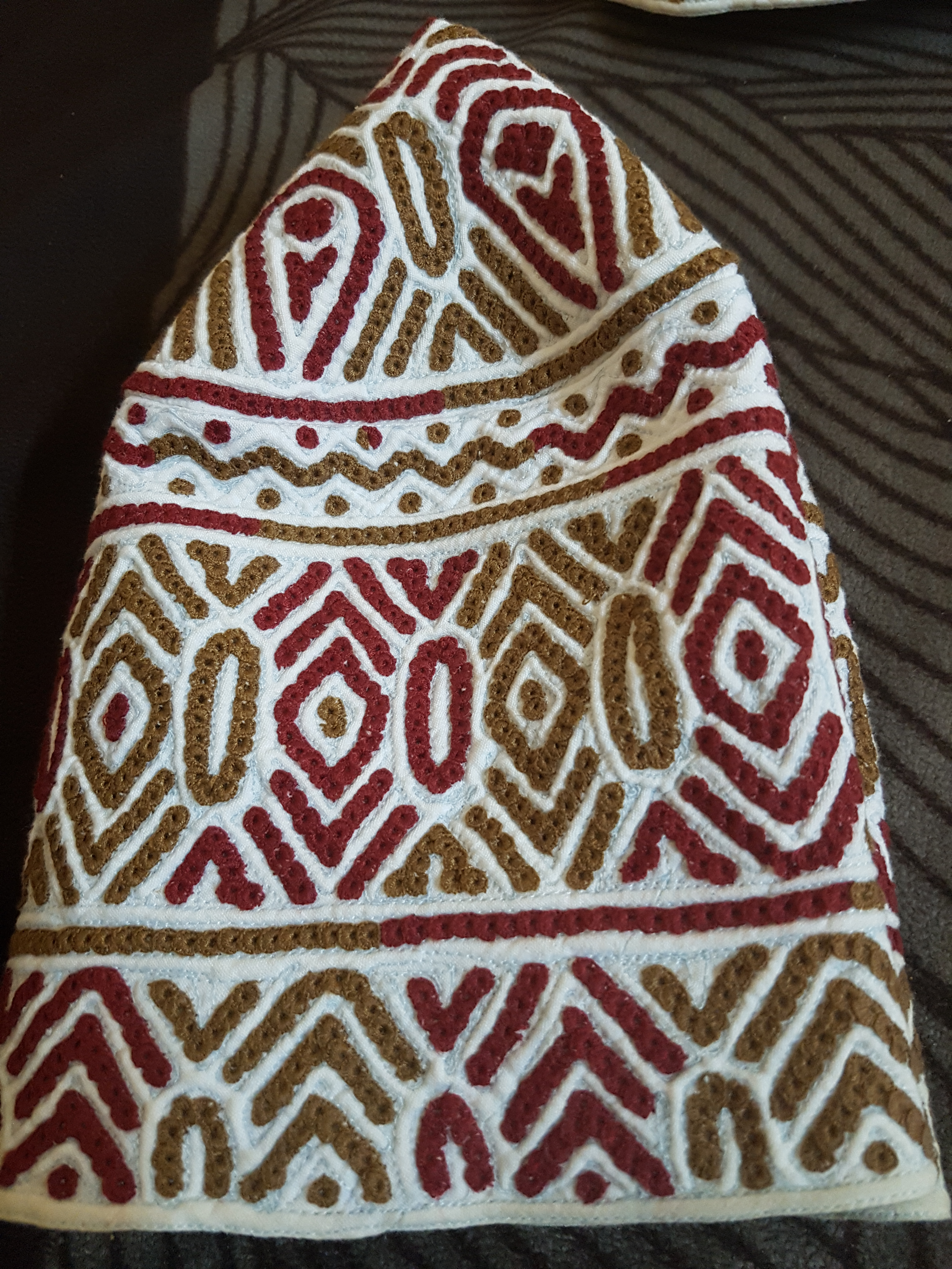 كمة عمانية متناسقة الالوان